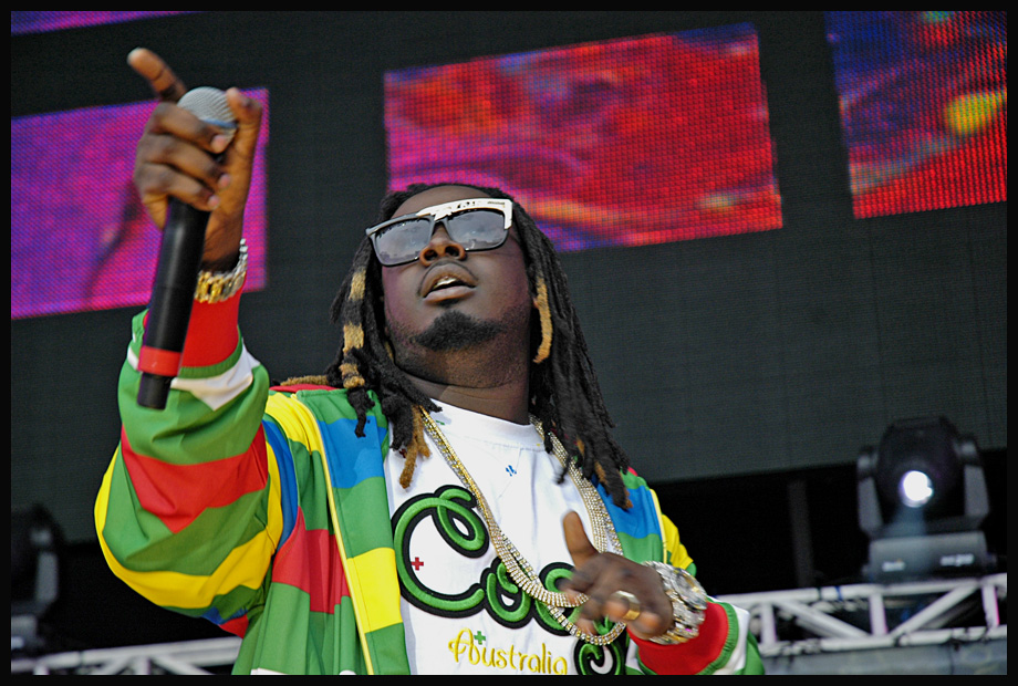 T-Pain performing at Hot 97's Summer Jam 2007 in Giants Stadium, East Rutherford, New Jersey, United States.